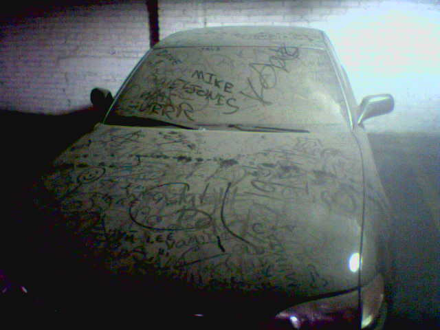 Self Made: Shot in Chicago in the parking lot of the Century Shopping Center on April 15, 2007